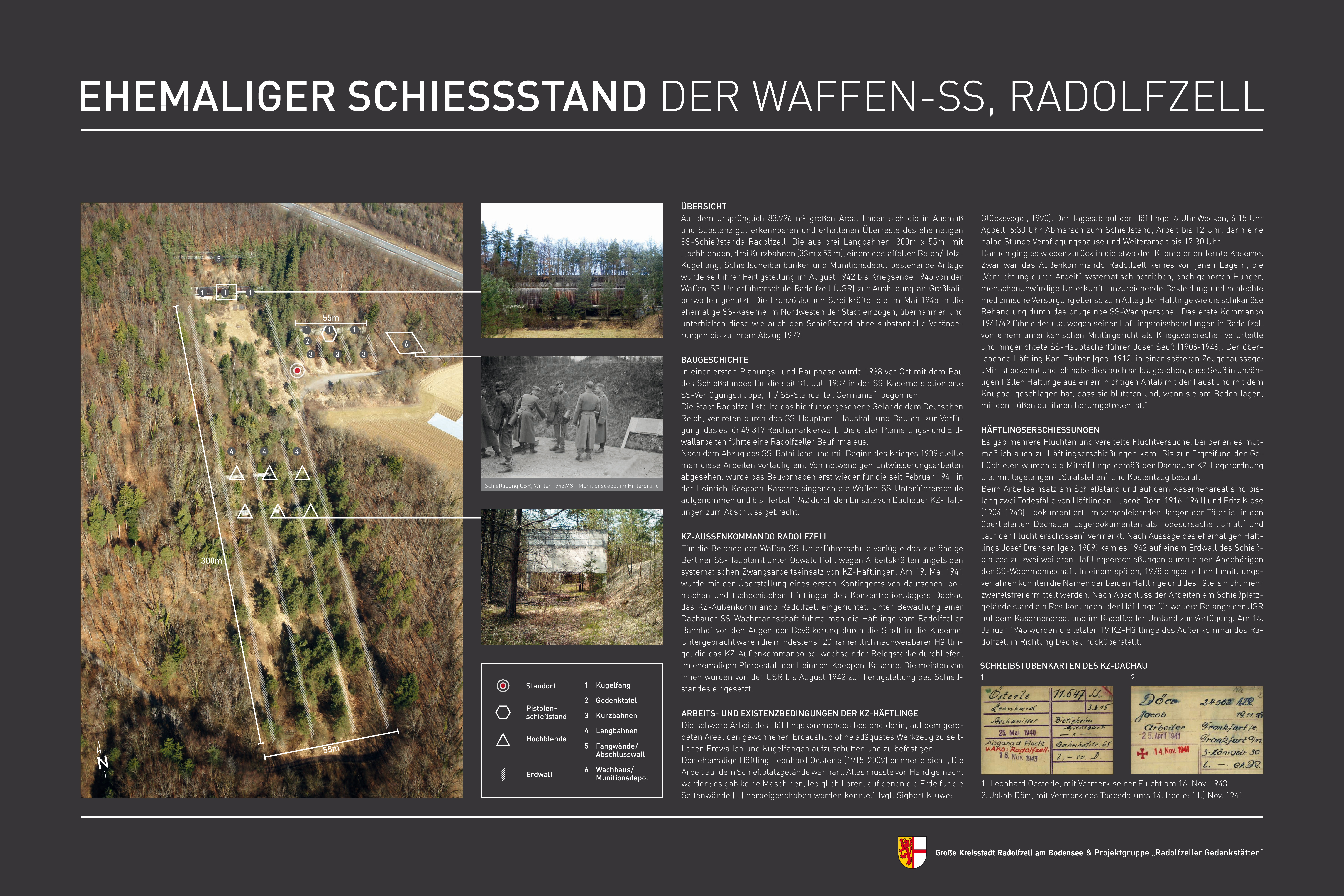 information plaque - rifle range waffen-ss Radolfzell, 1941-1945